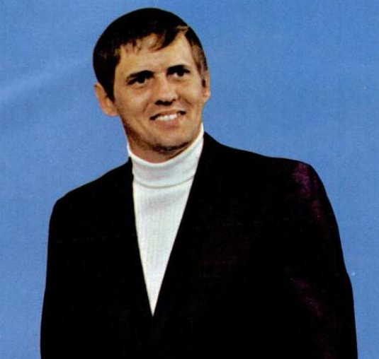 Trade ad for Henson Cargill's single "She Thinks I'm on That Train".To better adapt it to his respective Wikipedia article, the ad was cropped and cleaned in a graphics editing program. The original can be viewed at the source below.